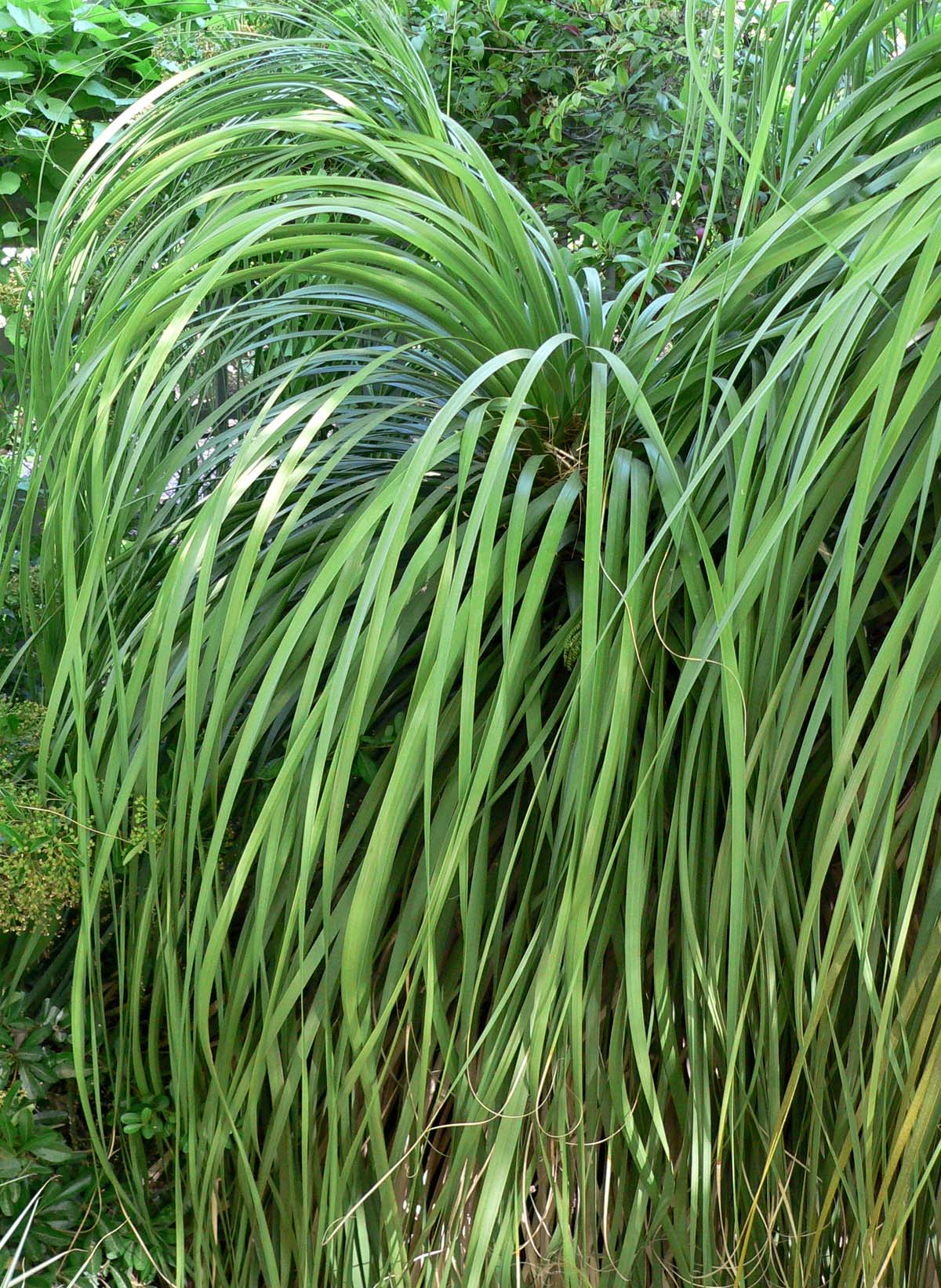 Photo of Nolina bigelovii (Bigelow's beargrass) at the Springs Preserve garden in Las Vegas, Nevada